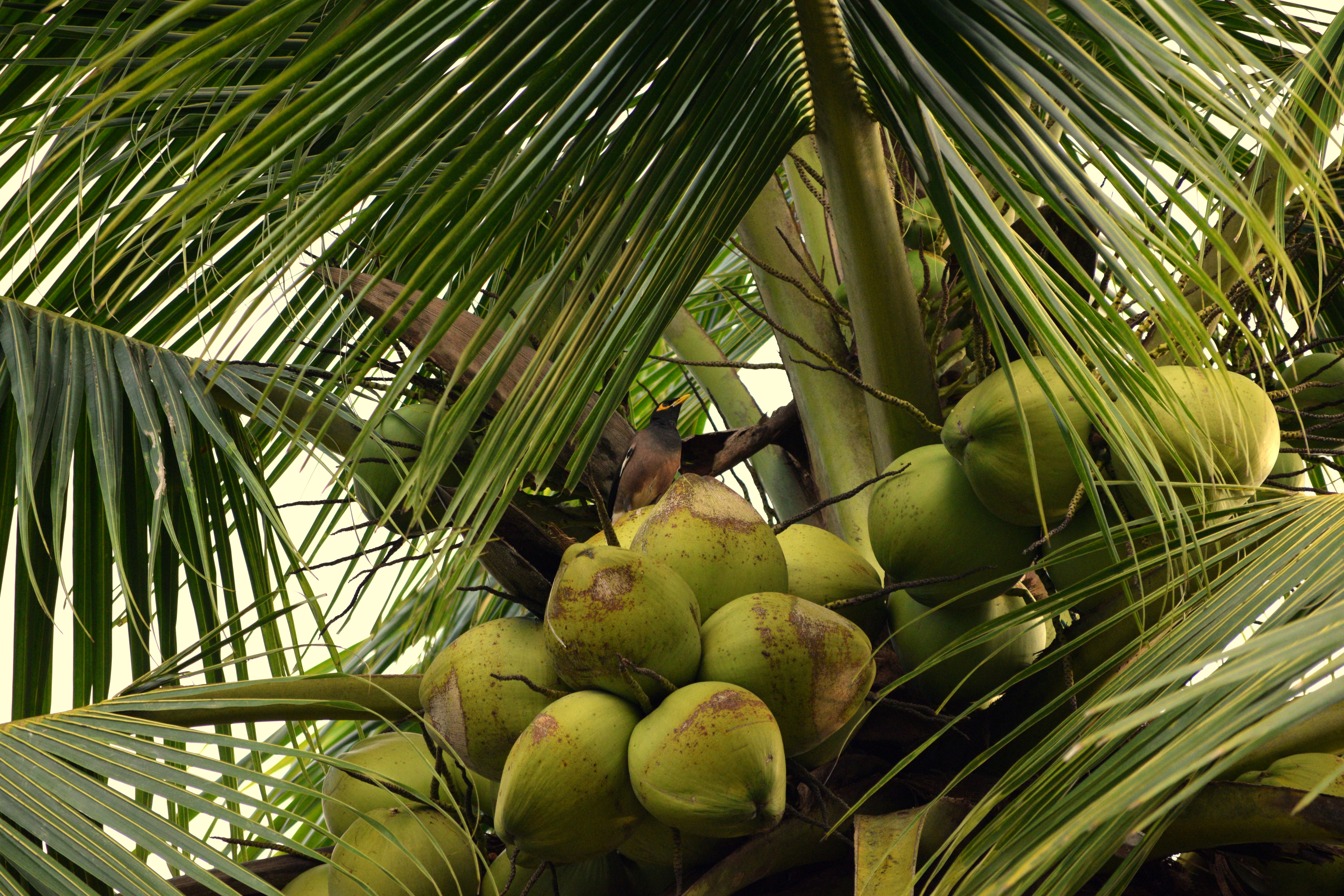 A common Myna resting on coconuts, Myanmar